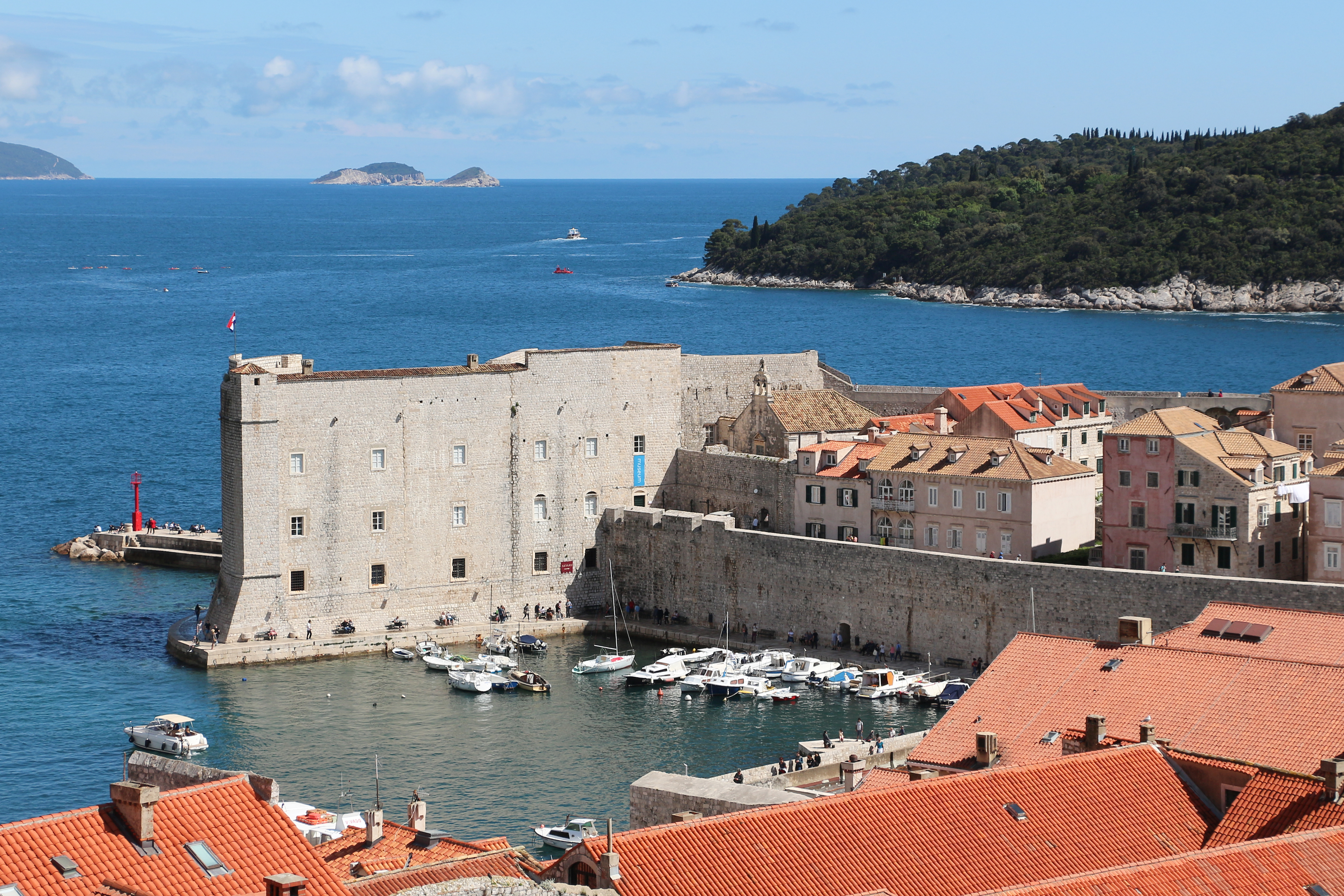 St. John Fortress, Dubrovnik, Croatia